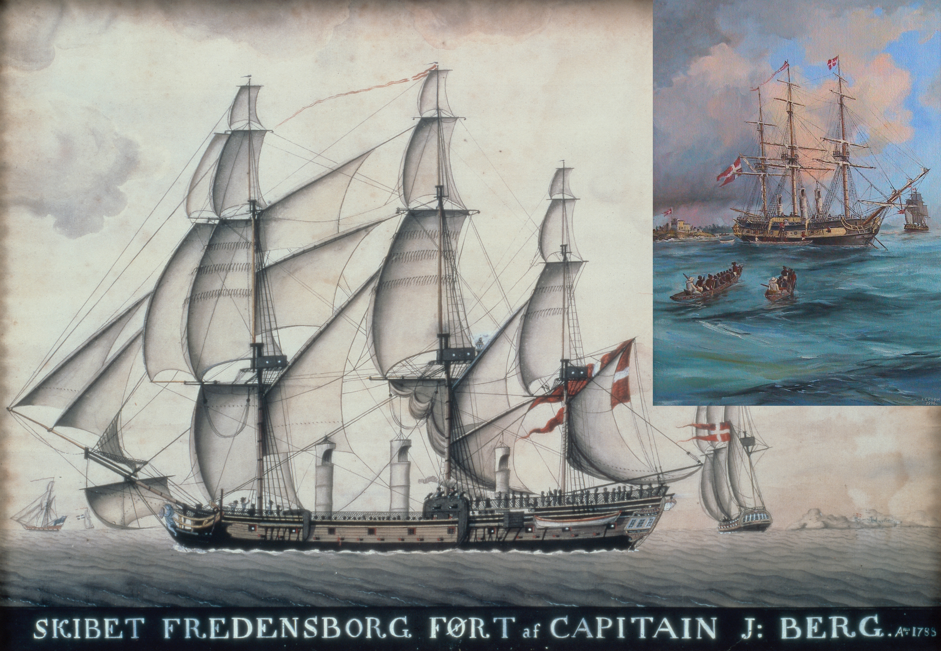 Farvelagt tegning visende fregatten / slaveskibet FREDENSBORG, ført af Kaptajn J. Berg i 1788. Privatejet.